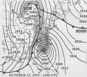 15 UTC map of October 1954 showing Hurricane Hazel and the meteorological set-up.